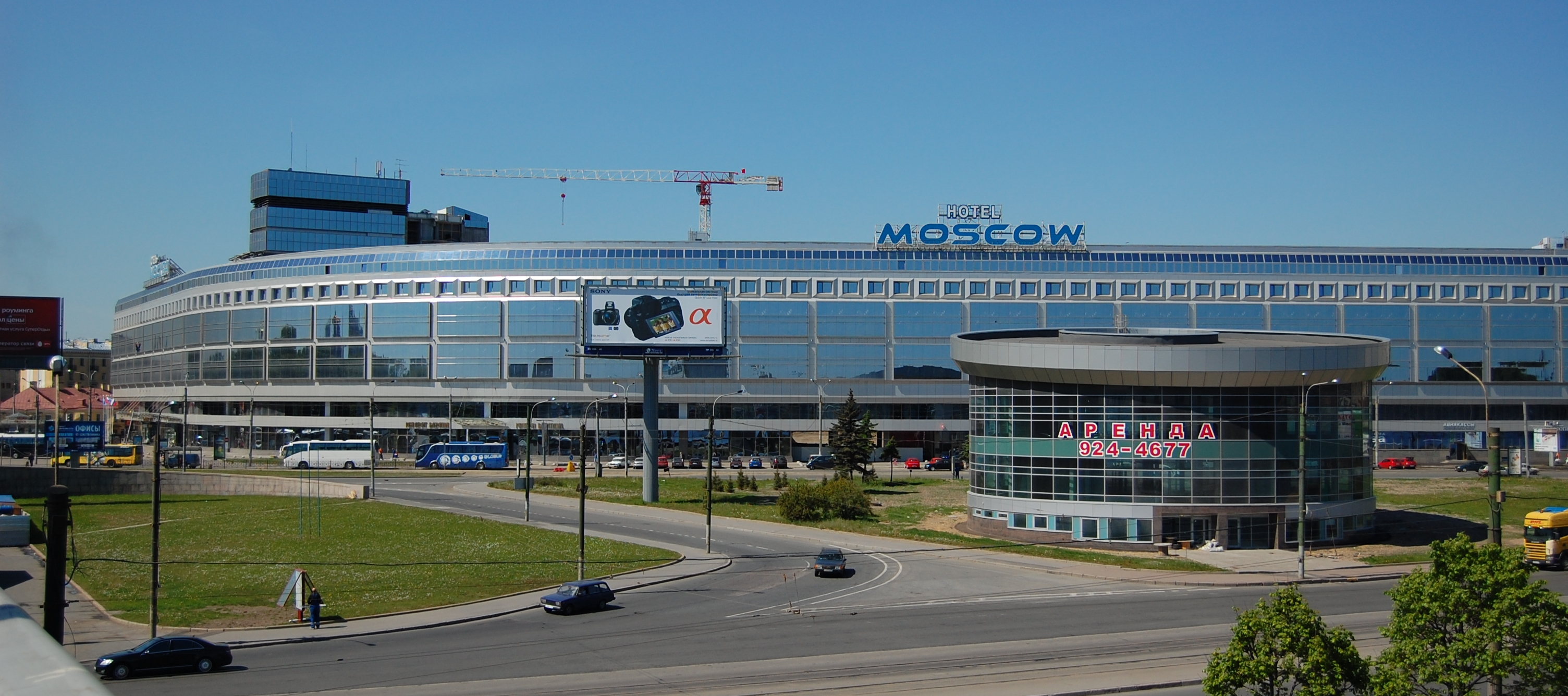 Hotel "Moskva" in Saint Petersburg (view from the Neva river)